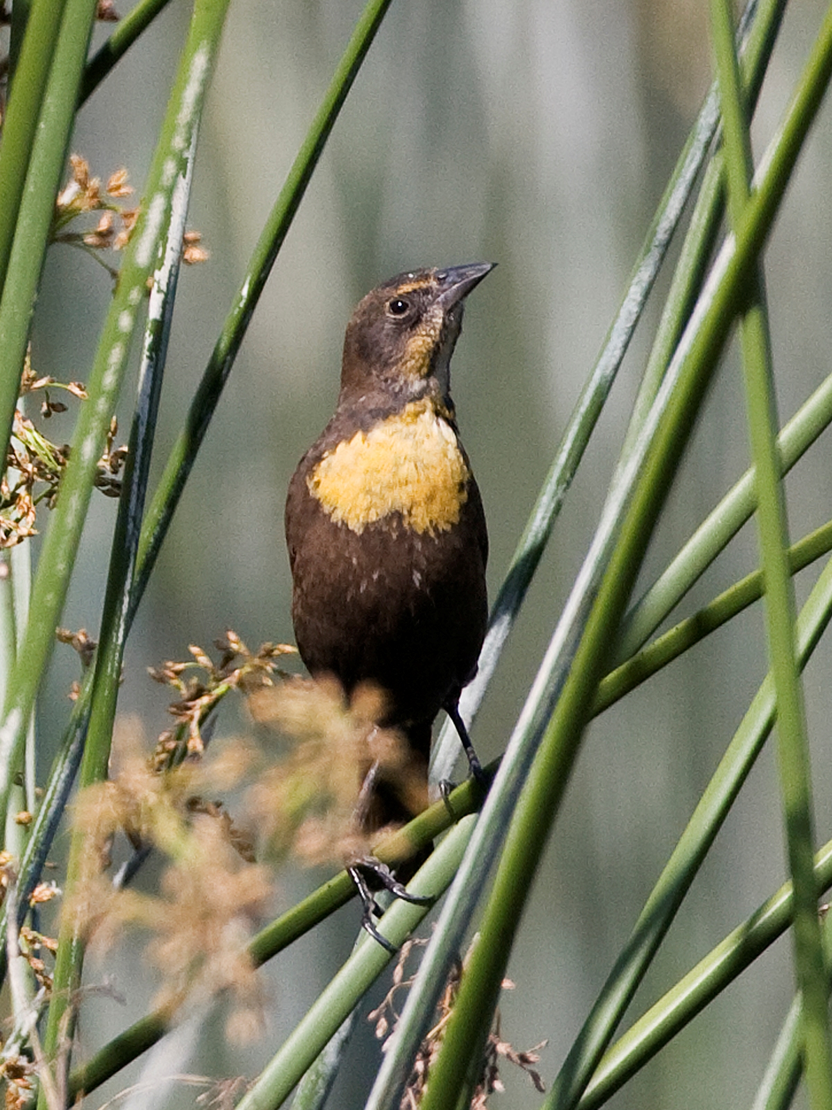 Female Yellow-headed Blackbird (Xanthocephalus xanthocephalus).